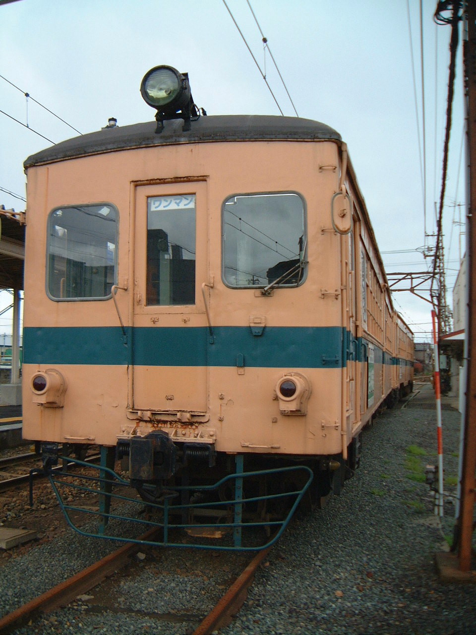 Fukui-tetsudo type120(Japan). Very old train. This photo is taken from FukuiShin station.（福井鉄道120形電車画像（122号：福井新駅にて）。）